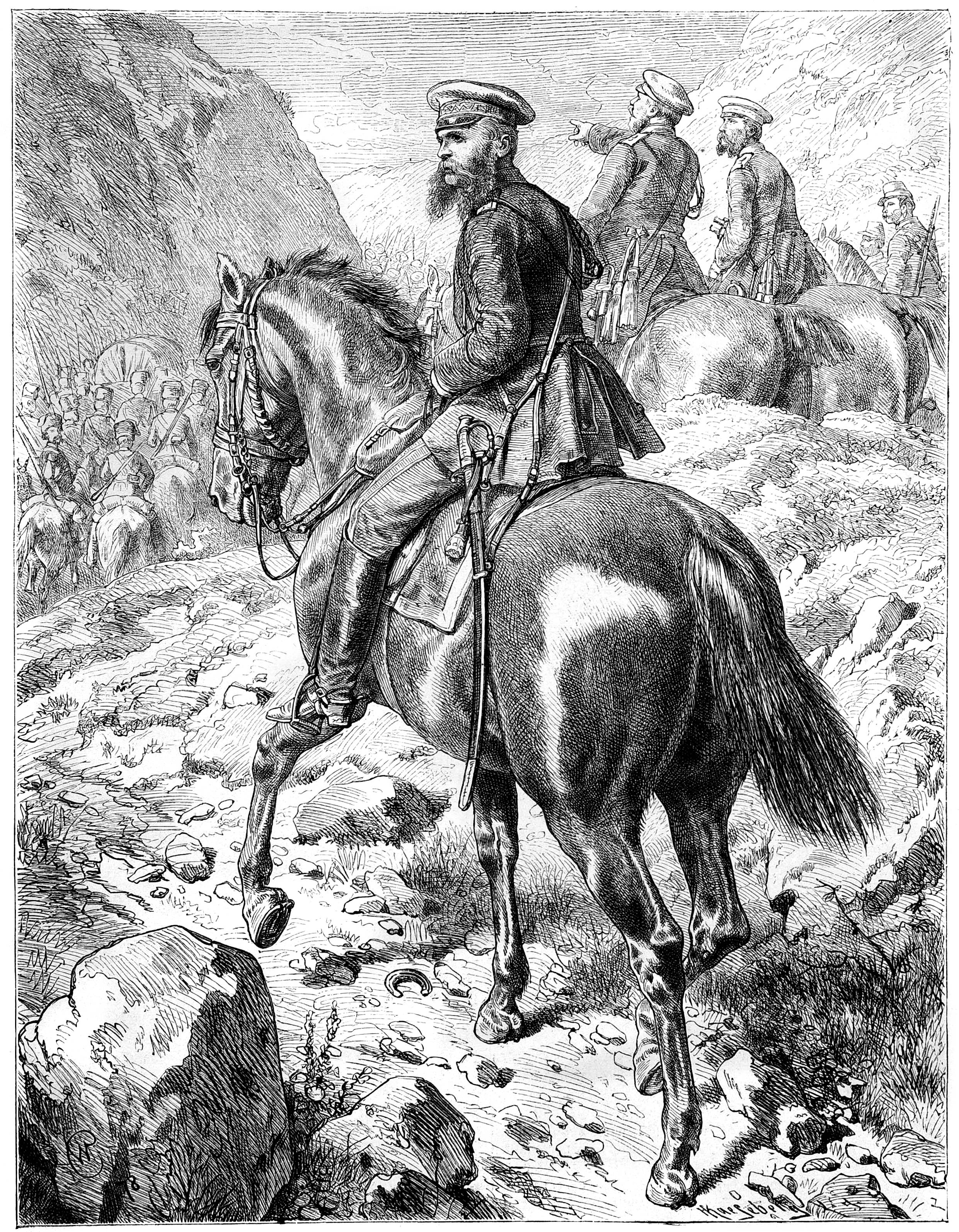 caption: "General Gurko. Originalzeichnung von Professor W. Camphausen in Düsseldorf."